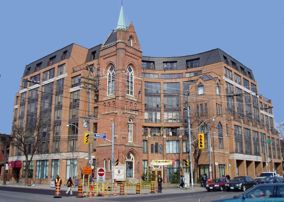 Taken by SimonP in April 2005